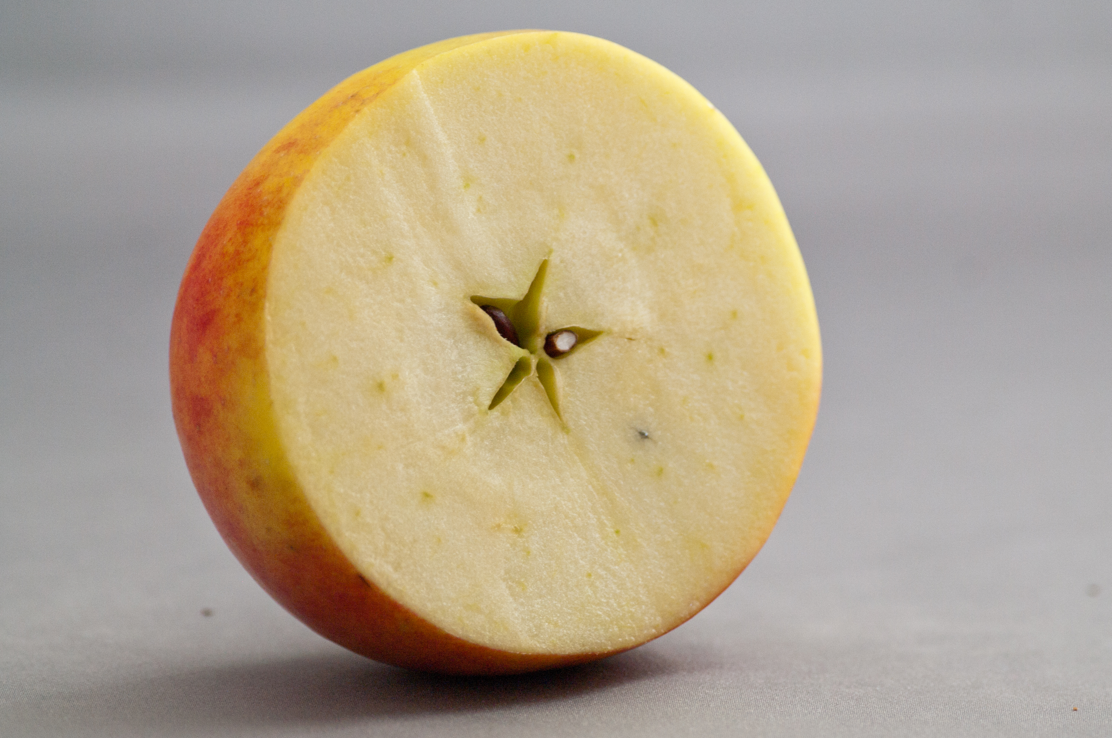 Nicoter apple, cut in half